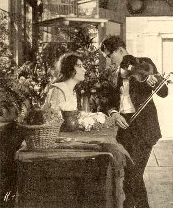 Still from the American drama film Brothers Divided (1919) with Ruth Langdon and Wallace MacDonald, on page 11 of the March 1920 Moving Picture Age.